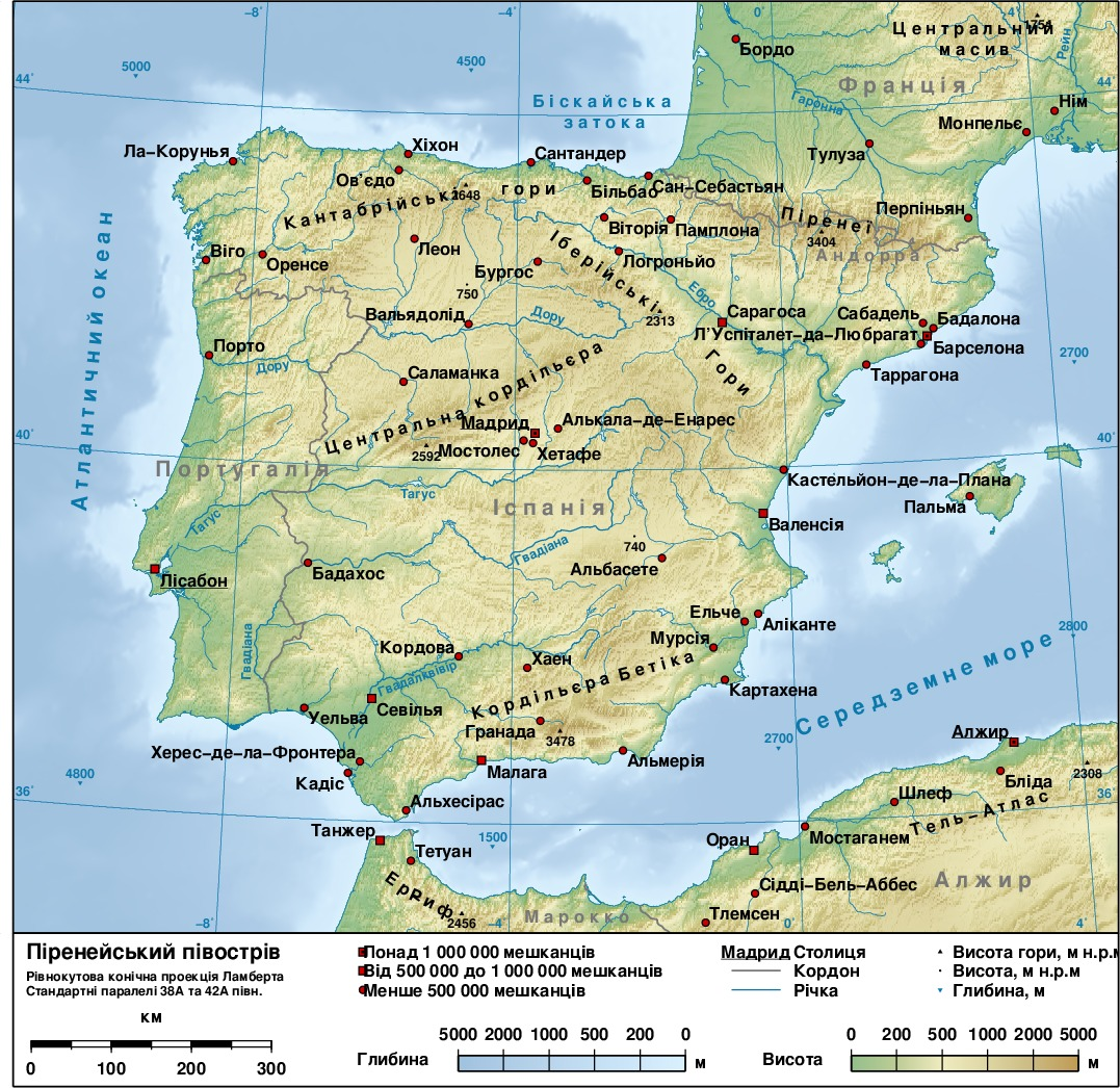 Iberian peninsula topographic map with Ukrainian localization based on the File:Iberian peninsula gmt de.jpg map.